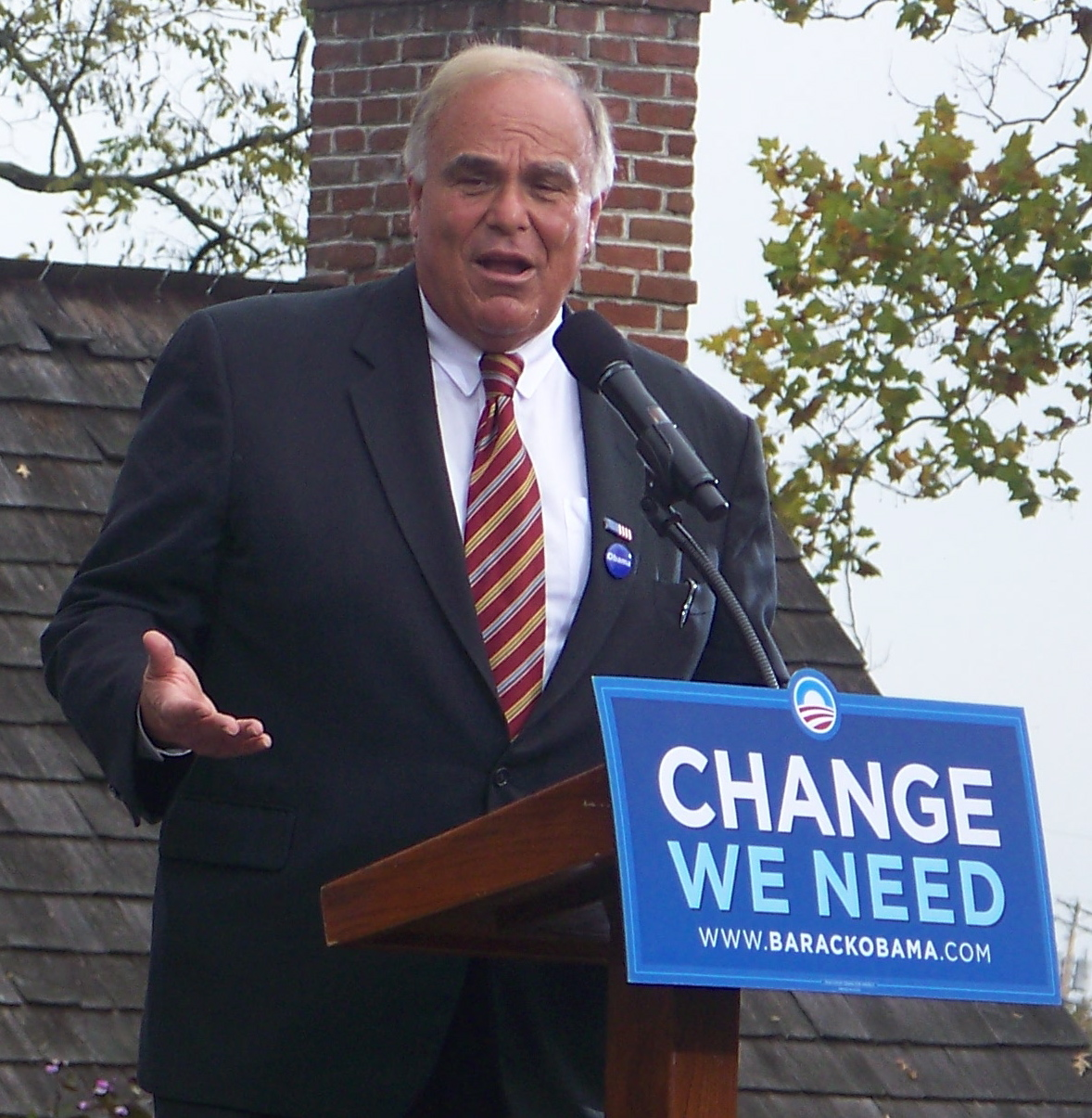 Ed Rendell speaking at a rally in support of Barack Obama; Horsham, PA